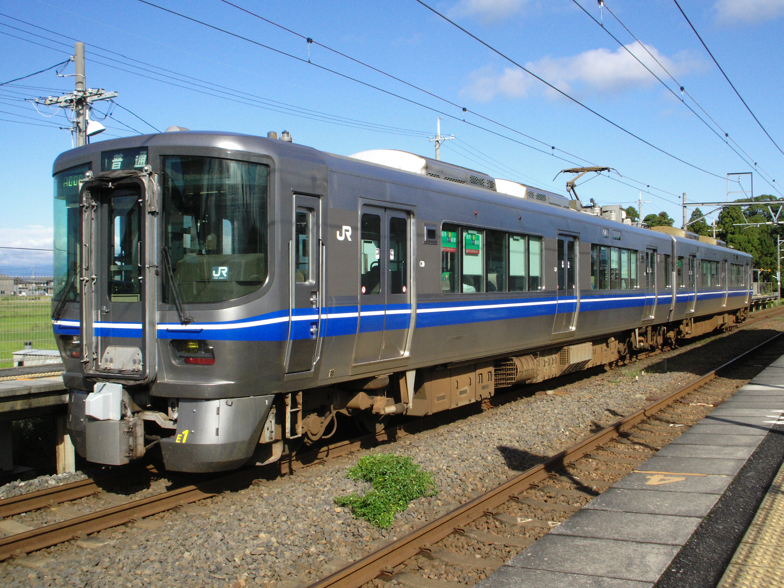 A JR West 521 series EMU at Sakata Station